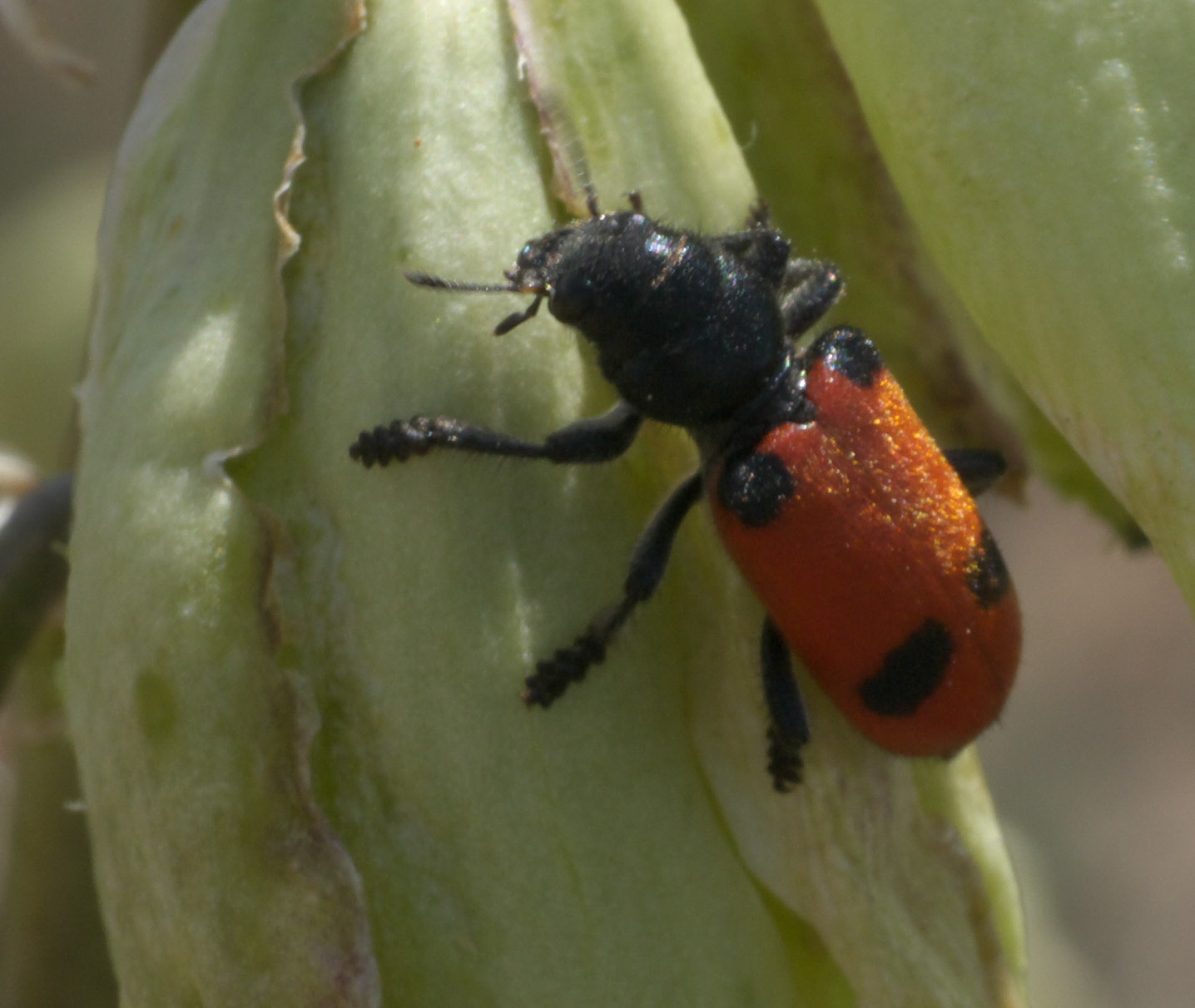 Enoclerus spinolae, Handsome Yucca Beetle, ID Confidence: 87